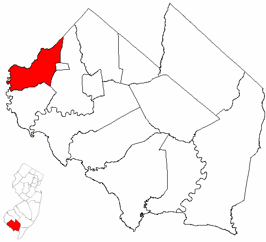 Map of Cumberland County highlighting Stow Creek Township